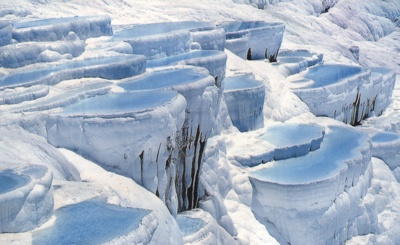 Denizli travertenler (Pamukkale)